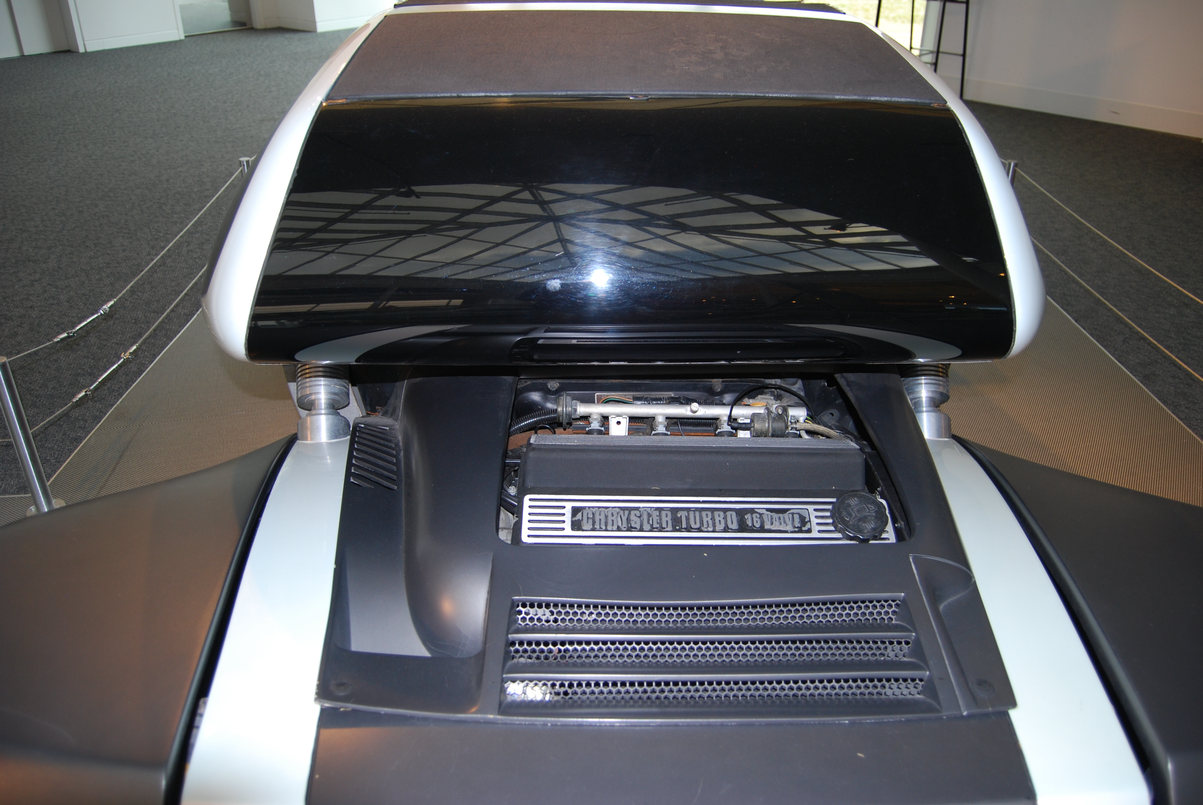 Plymouth Slingshot engine compartment.